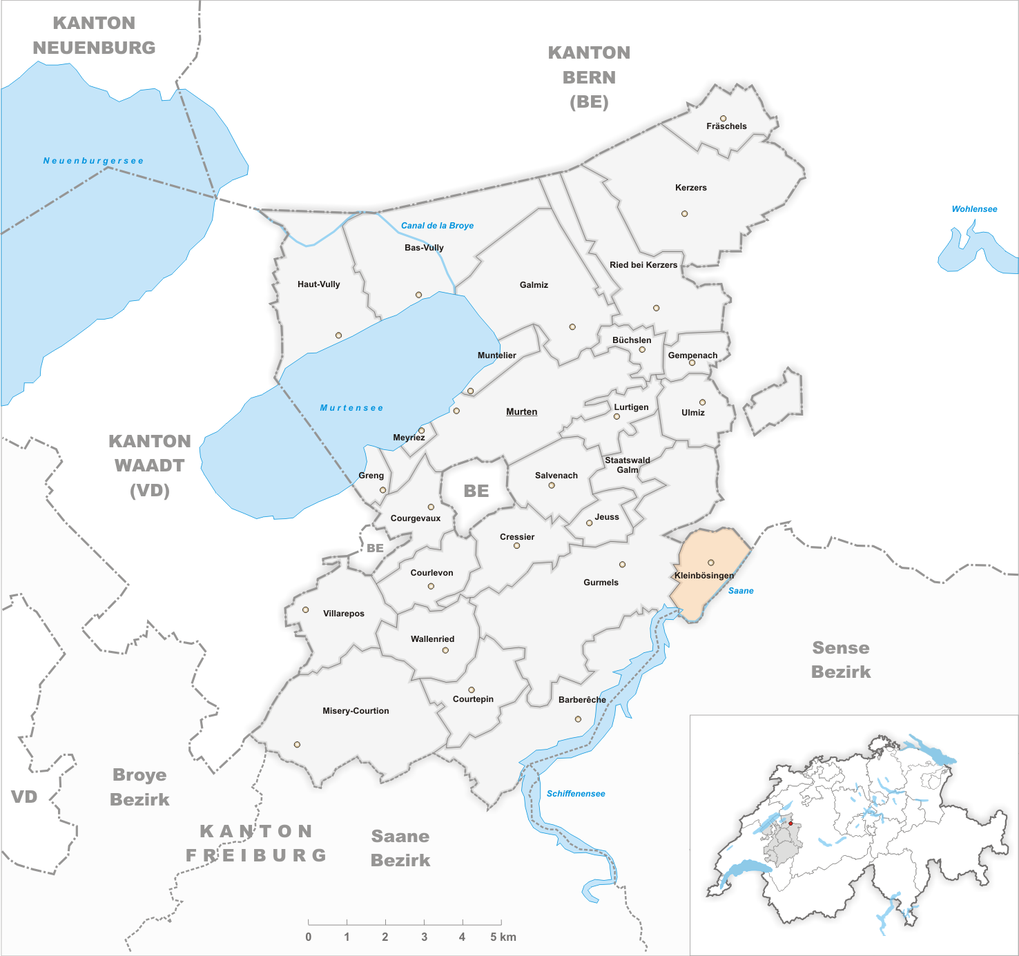 Municipality Kleinbösingen